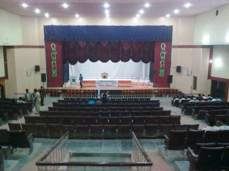 audi of vss